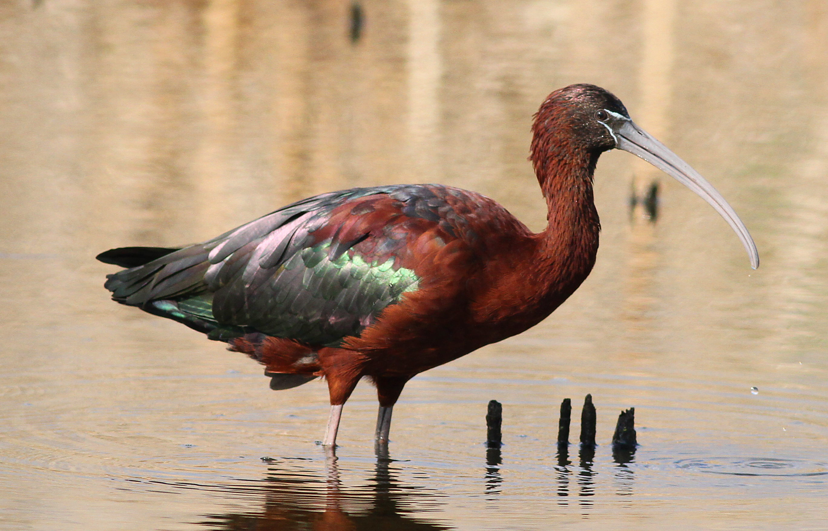 Glossy Ibis, Plegadis falcinellus at Marievale Nature Reserve, Gauteng, South Africa. Marievale is probably the best place to see this bird.